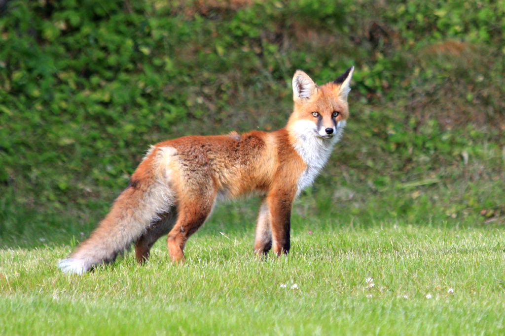 Red Fox, nominate Vulpes vulpes vulpes, Bönhamn, Västernorrlands Län, Sweden.